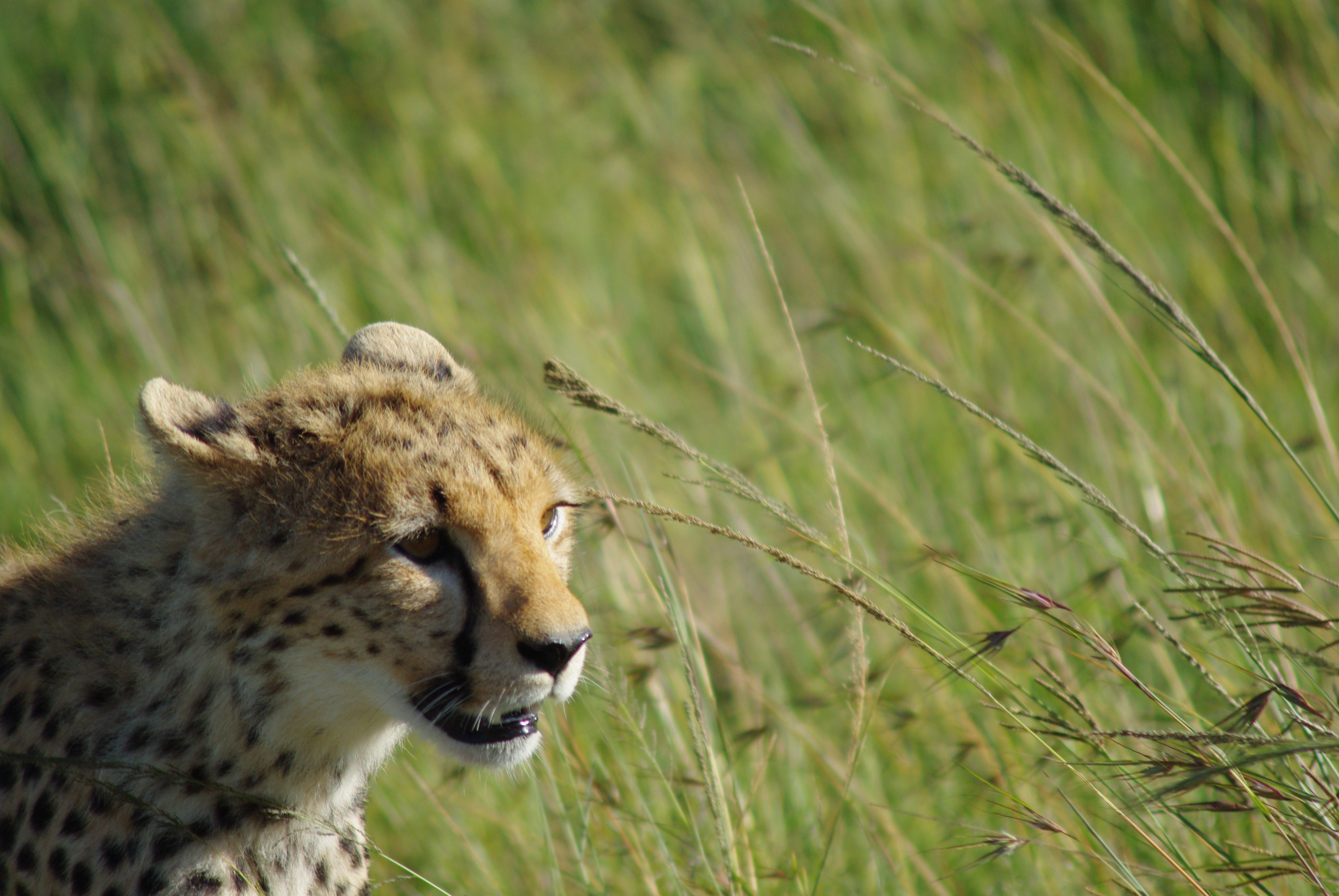 Cheetah at the Maasai Mara National Reserve in Kenya